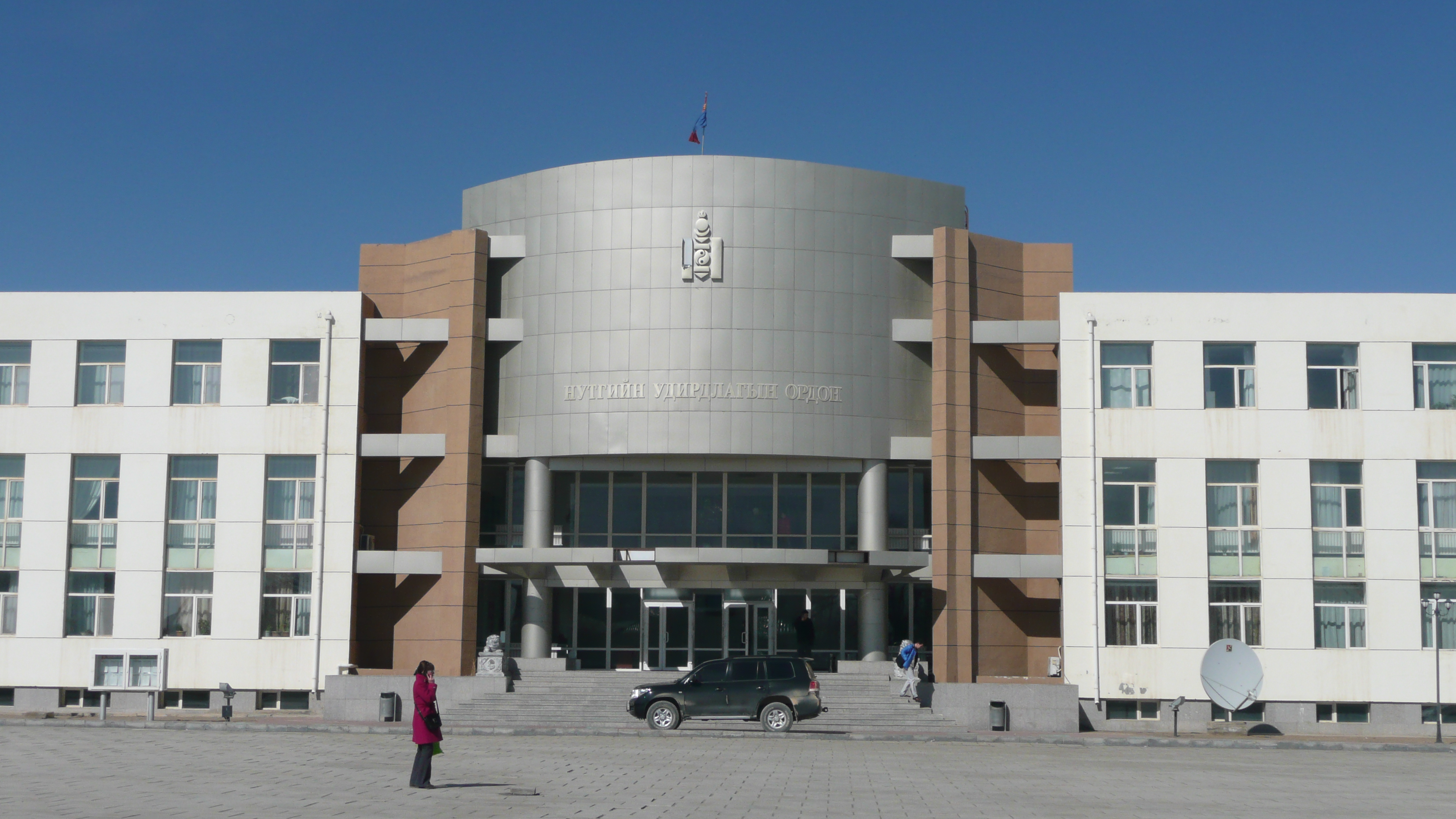 Administration of the Aimag in Dalanzadgad